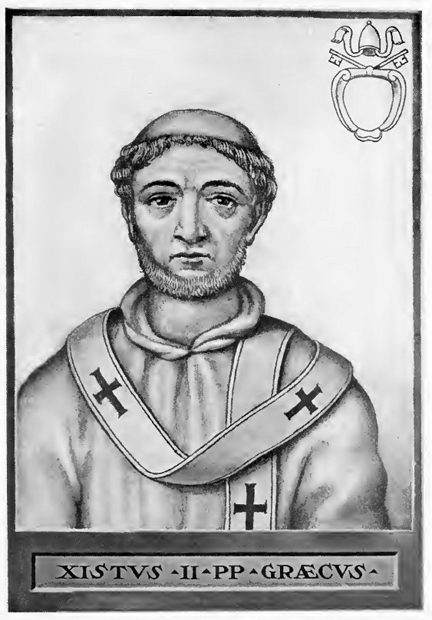 This illustration is from The Lives and Times of the Popes by Chevalier Artaud de Montor, New York: The Catholic Publication Society of America, 1911. It was originally published in 1842.